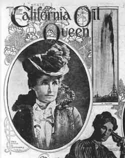 Illustration for an article about Emma Summers, the "Oil Queen of California"